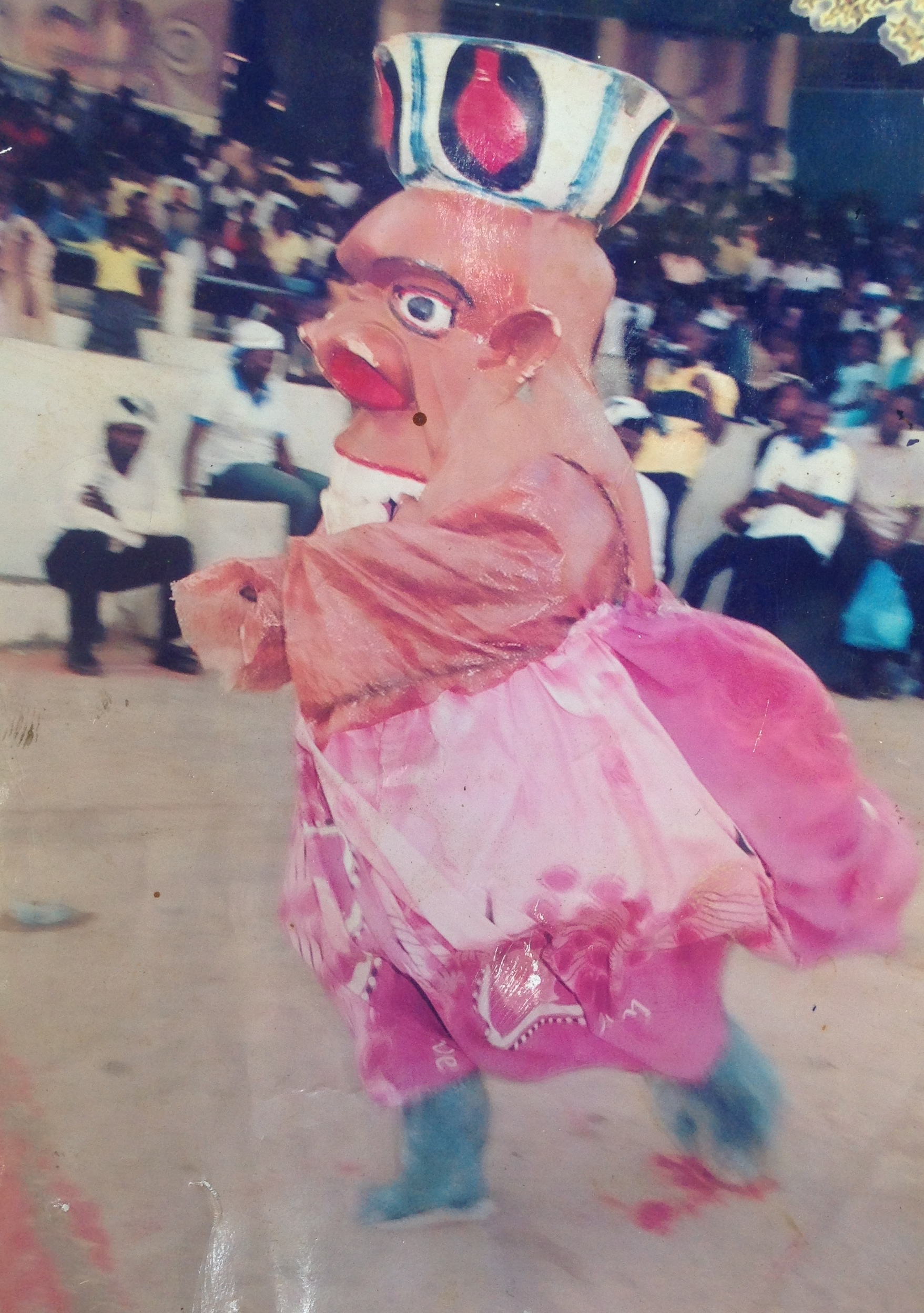 Kwagh-hir is a UNESCO Intangible Cultural Heritage of Humanity